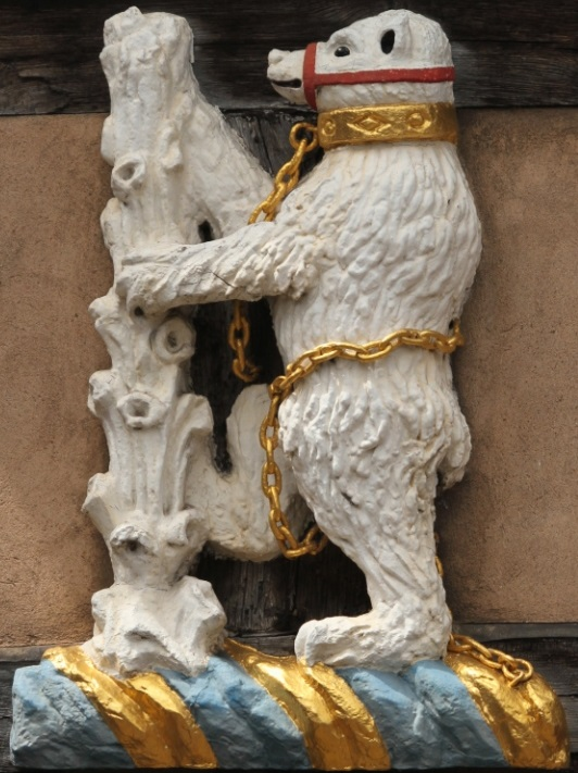 Robert Dudley's bear and ragged staff insignium on the front of the Lord Leycester Hospital, High Street, Warwick